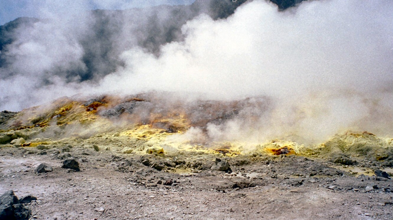 Indonesia Papandayan volcano Picture taken by Hullie august 1997